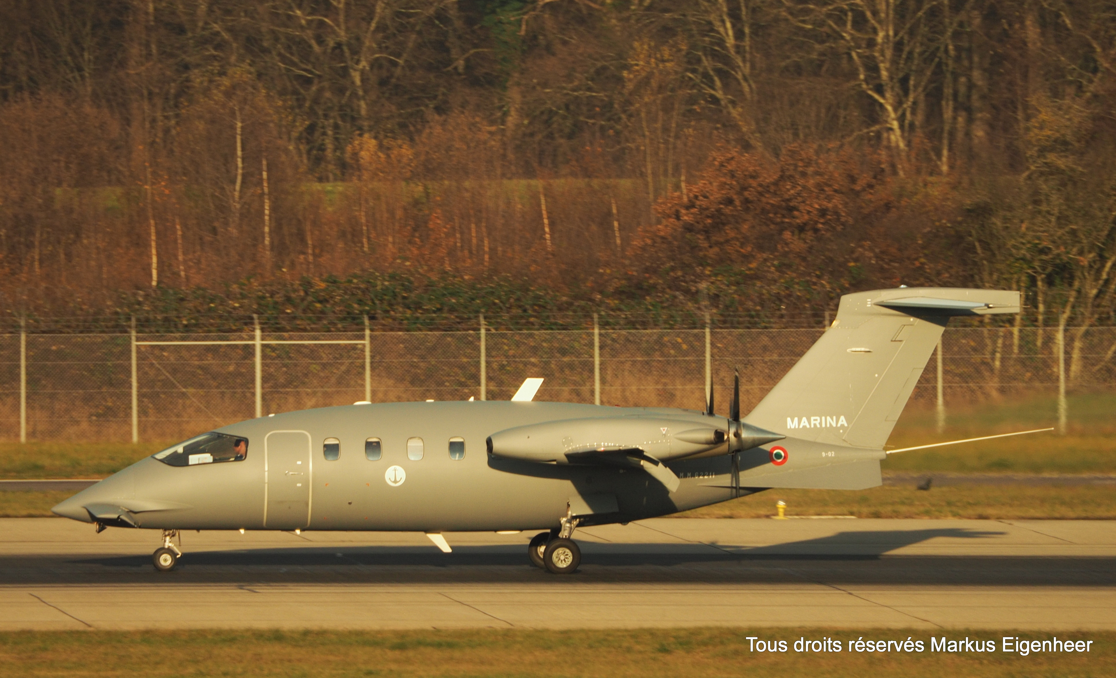 GVA 10.12.2014